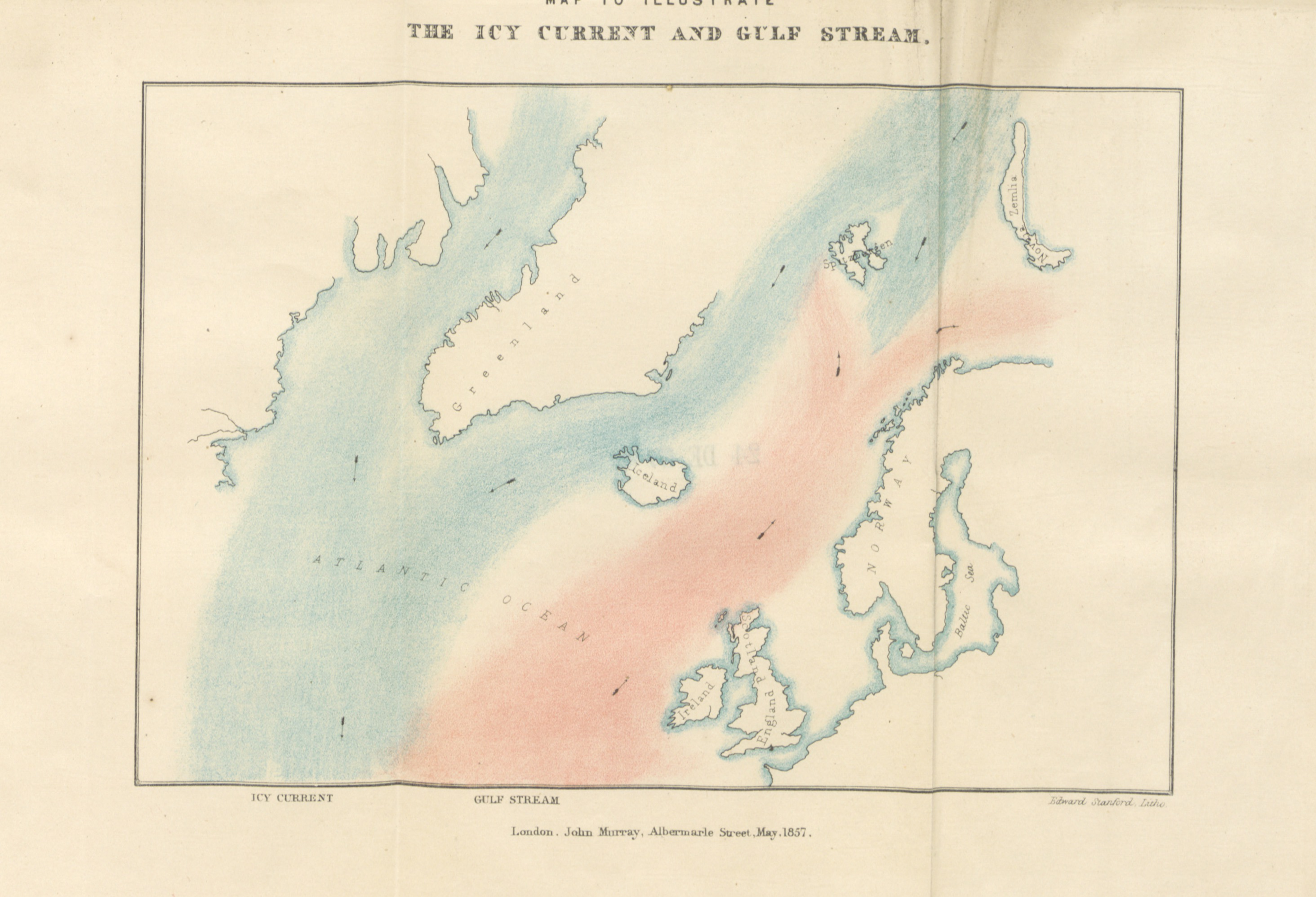 View this map on the BL Georeferencer service. Image taken from: Title: "[Letters from High Latitudes; being some account of a voyage in the schooner yacht “Foam” ... to Iceland, Jan Mayen, & Spitzbergen, in 1856. [With plates and maps. " Author: BLACKWOOD, Frederick Temple Hamilton Temple - Marquis of Dufferin and Ava Shelfmark: "British Library HMNTS 10281.c.25." Page: 499 Place of Publishing: London Date of Publishing: 1857 Publisher: John Murray Edition: Third edition. Issuance: monographic Identifier: 000367731 Explore: Find this item in the British Library catalogue, 'Explore'. Download the PDF for this book (volume: 0) Image found on book scan 499 (NB not necessarily a page number) Download the OCR-derived text for this volume: (plain text) or (json) Click here to see all the illustrations in this book and click here to browse other illustrations published in books in the same year. Order a higher quality version from here.